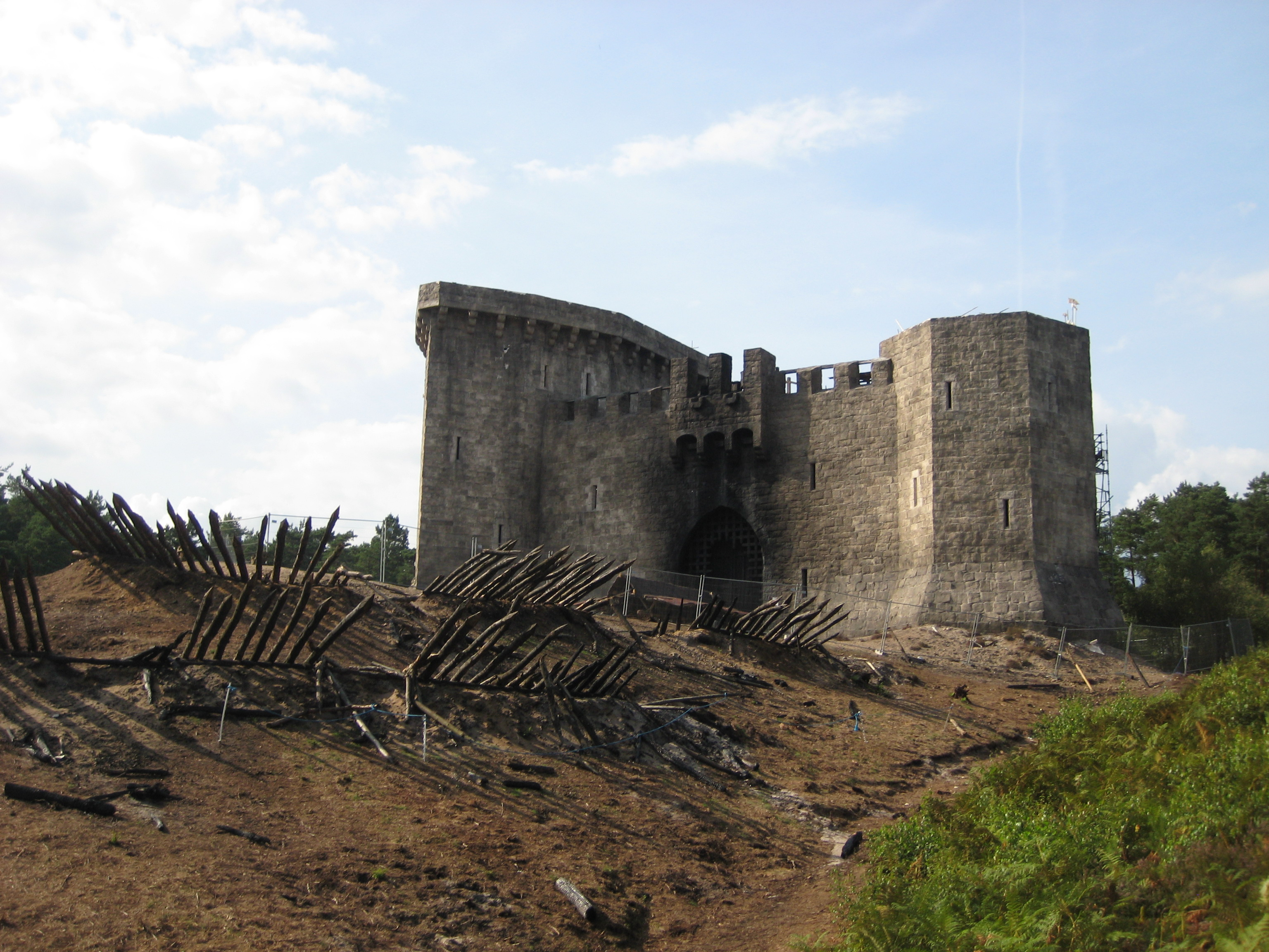 The mock castle representing Château de Châlus-Chabrol in France, created for the filming of Robin Hood (2010), at Bourne Wood, Farnham, Surrey. The picture shows the castle at the end of filming, with burnt main gate.